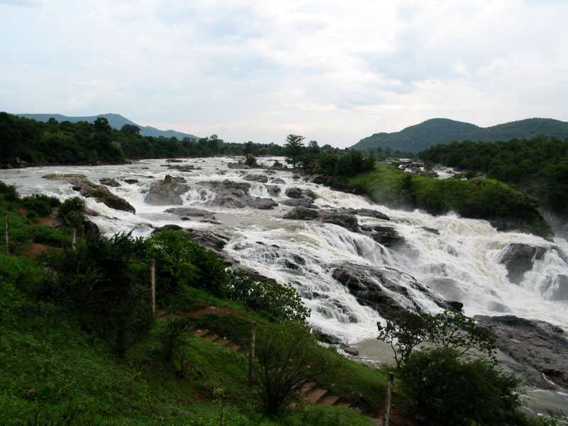 Gaganachukki, the more popular of the 2 falls at Shivanasamudram, as viewed from the Dargah end. The upstream is more easily visible from the Dargah end. This picture was clicked just after the monsoons when Kaveri River is more often in spate and has plentiful water. The roar of the river as it cascades down the rocky path and down the cliff is immense and is only heard to be believed.